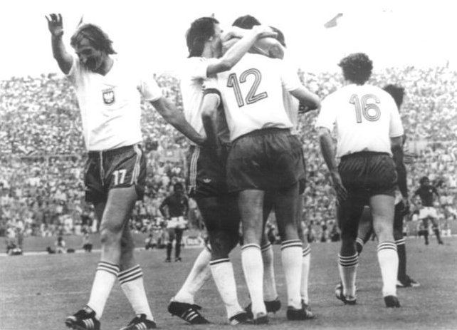 Kazimierz Deyna (no 12) in the arms of teammates (e.g. Henryk Kasperczak, left Andrzej Szarmach, right Grzegorz Lato (no 16)) after shooting 2:0 goal during 2:1 match Poland-Italy, in 1974 FIFA World Cup, 23.06.1974